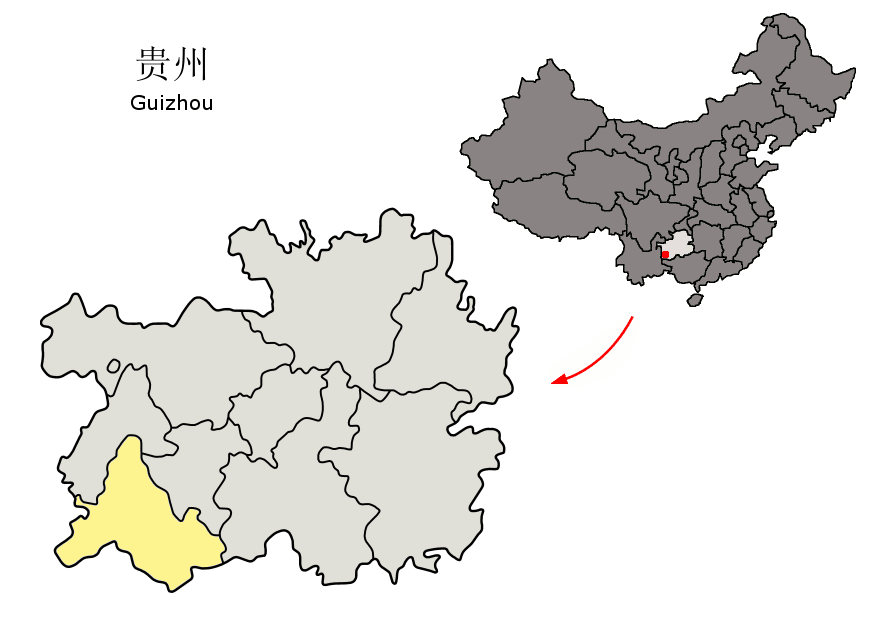 Location of Qianxinan Prefecture (yellow) within Guizhou province of China Map drawn in november 2007 using various sources, mainly : Guizhou province administrative regions GIS data: 1:1M, County level, 1990 Guizhou Counties map from